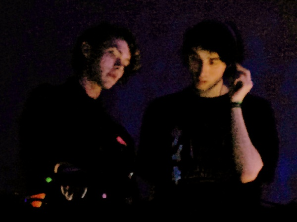 Sophie and A. G. Cook performing "Hey QT" at 1015 Folsom in San Francisco, California